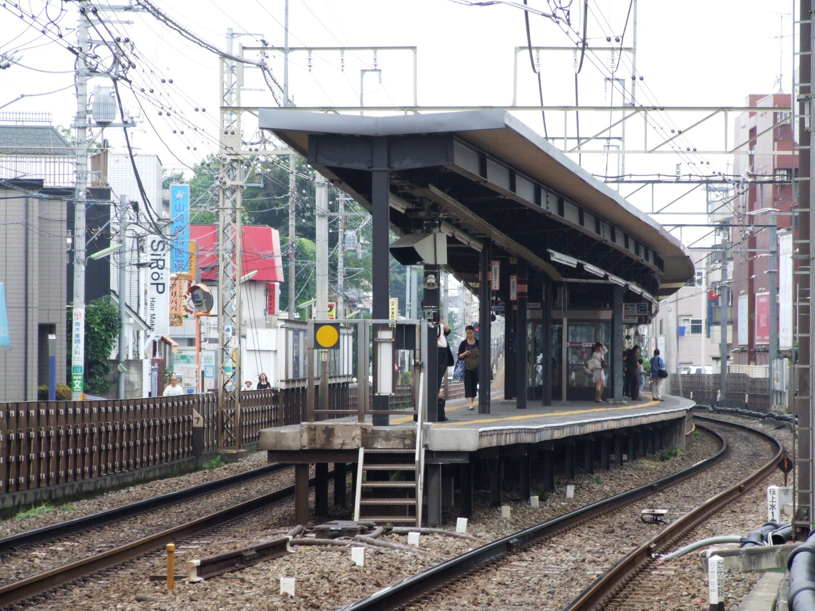 Precincts of Kami-kitazawa station,KEIO-LINE,Keio Corporation,Japan